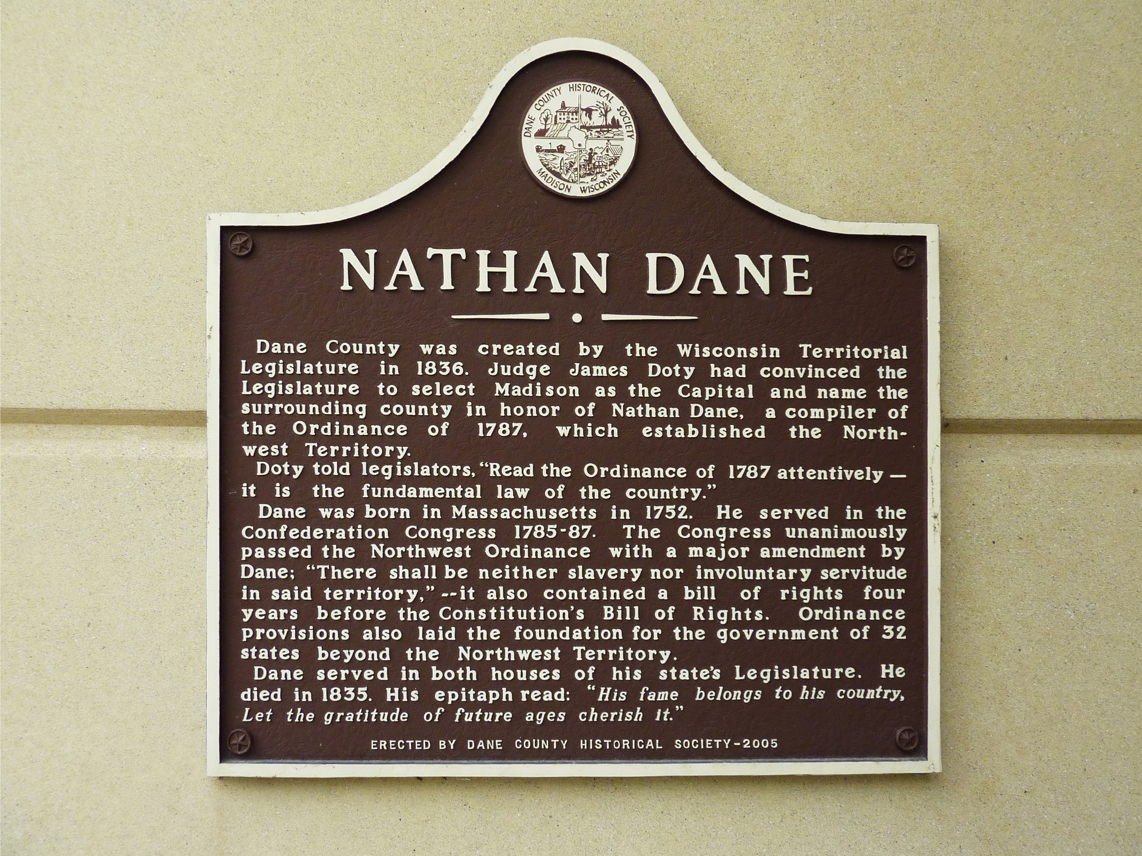 Historical marker for Nathan Dane at the Dane County Courthouse, Madison, Wisconsin